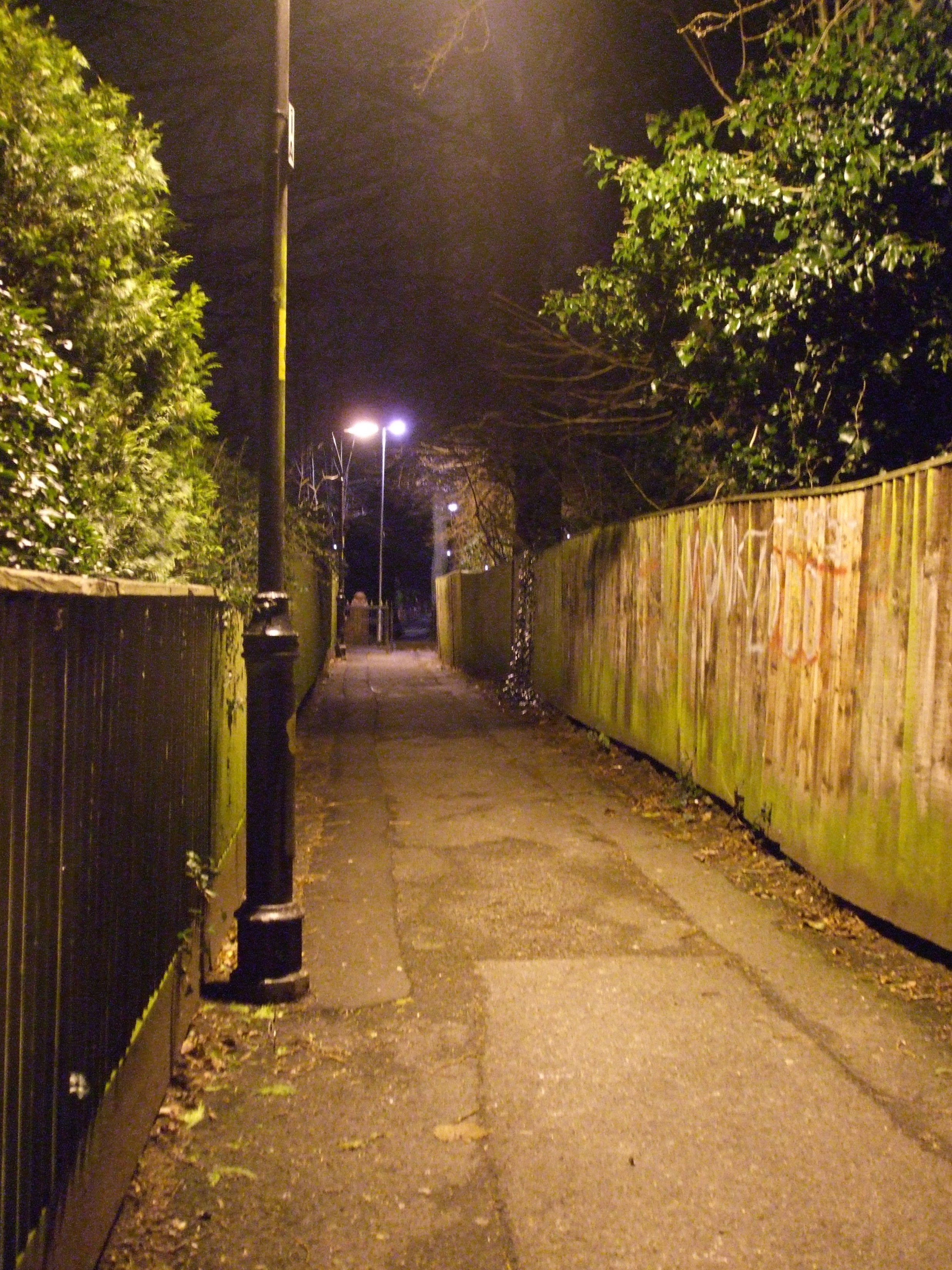 Ginnel at Chorltonville, Manchester